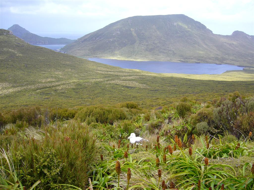 Campbell Island, Six Foot Lake - with Jaquemart Island in the distance.